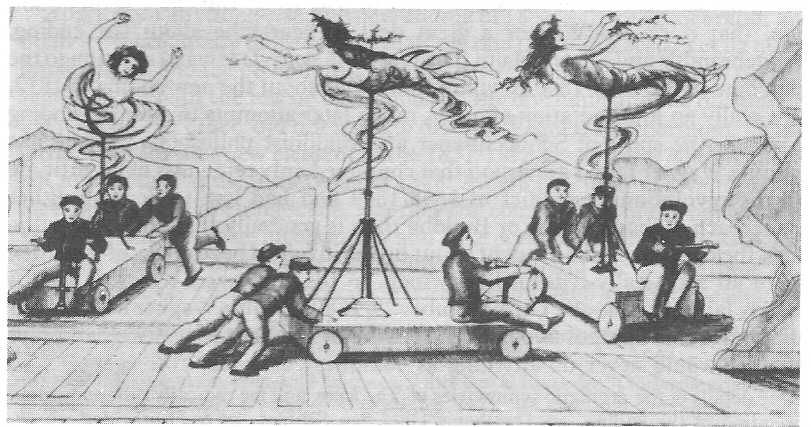 A contemporary sketch of the stage machinery used for the swimming Rhinemaidens during the 1876 premiere of Wagner's Ring